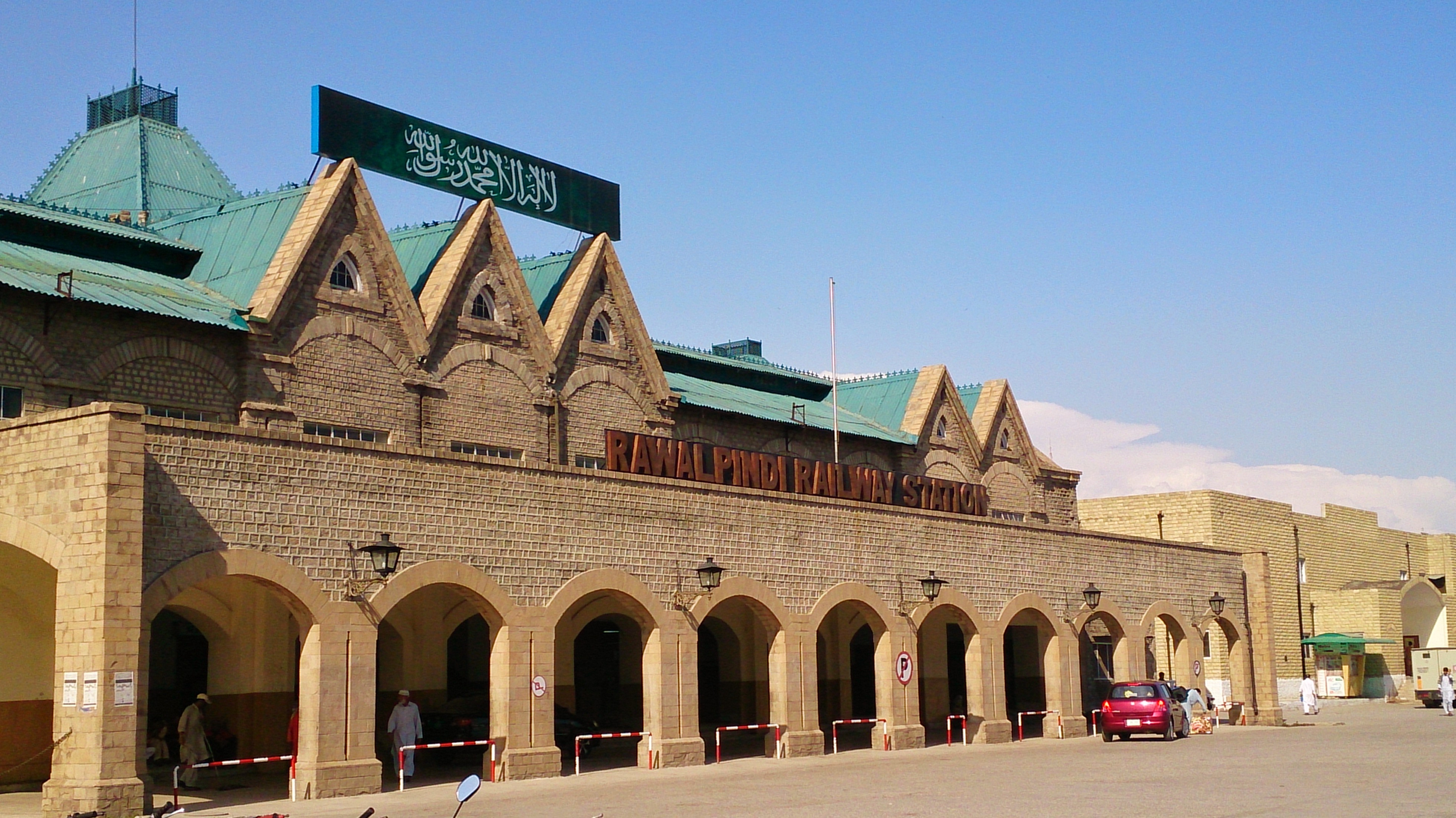 Rawalpindi railway station This is a photo of a monument in Pakistan identified as the PB-U-48